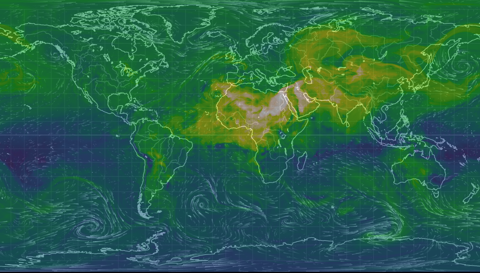 This map shows dust particles in the world